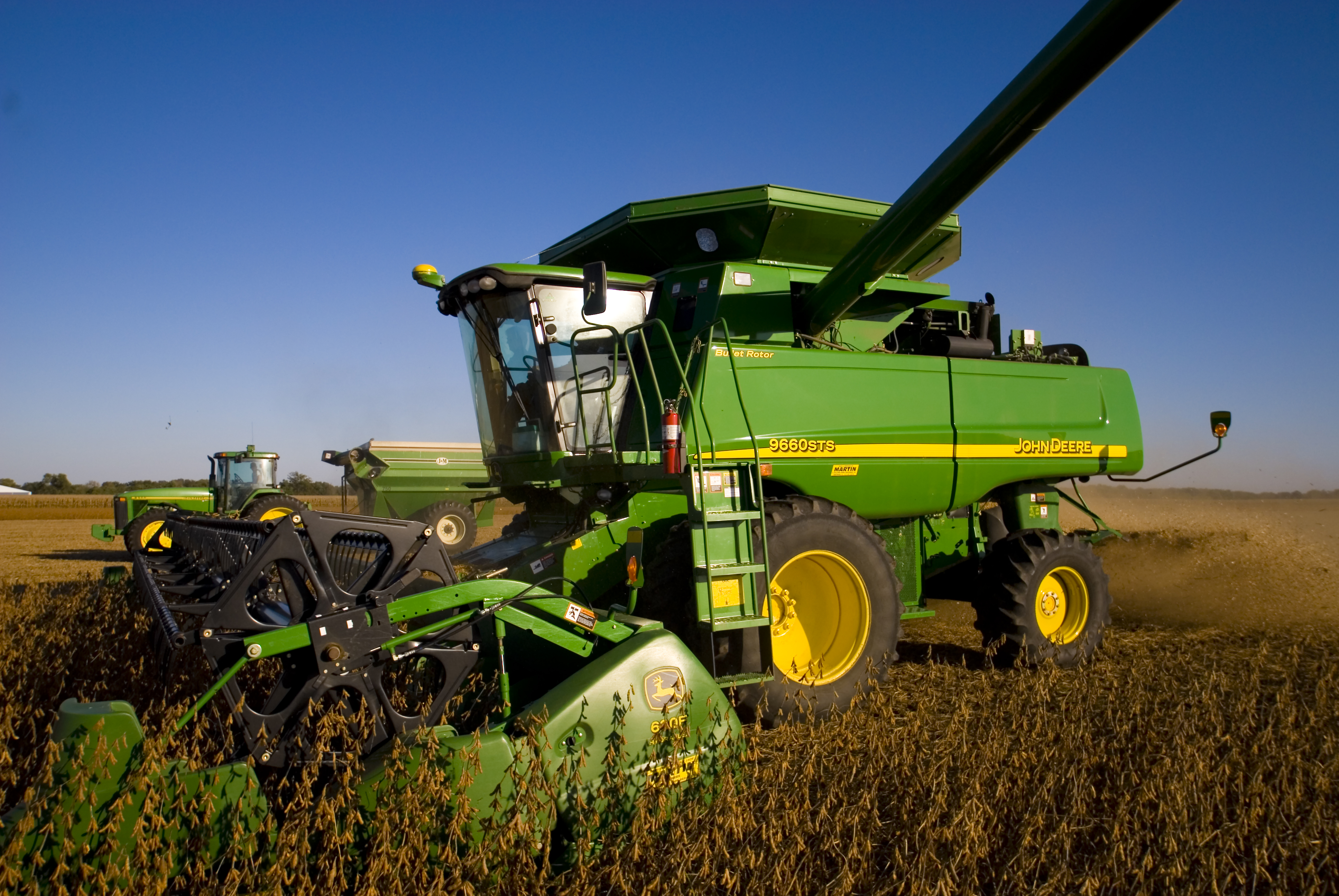 John Deere 9660STS combine harvesting soybeans on a field somewhere in Illinois, USA; John Deere tractor with J&M auger wagon in the background.